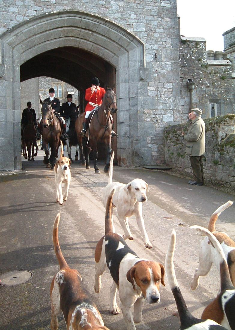 Picture of the huntsman and hounds exiting Powderham castle for a hunt